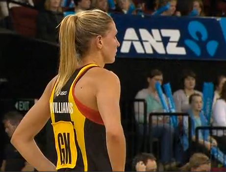 enhance netball. Magic vs Thunderbirds 2010 ANZ Championship Grand Final.